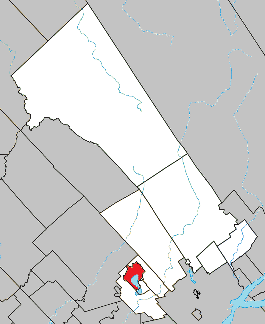 Location of Lac-Saint-Joseph, Quebec within La Jacques-Cartier Regional County Municipality.